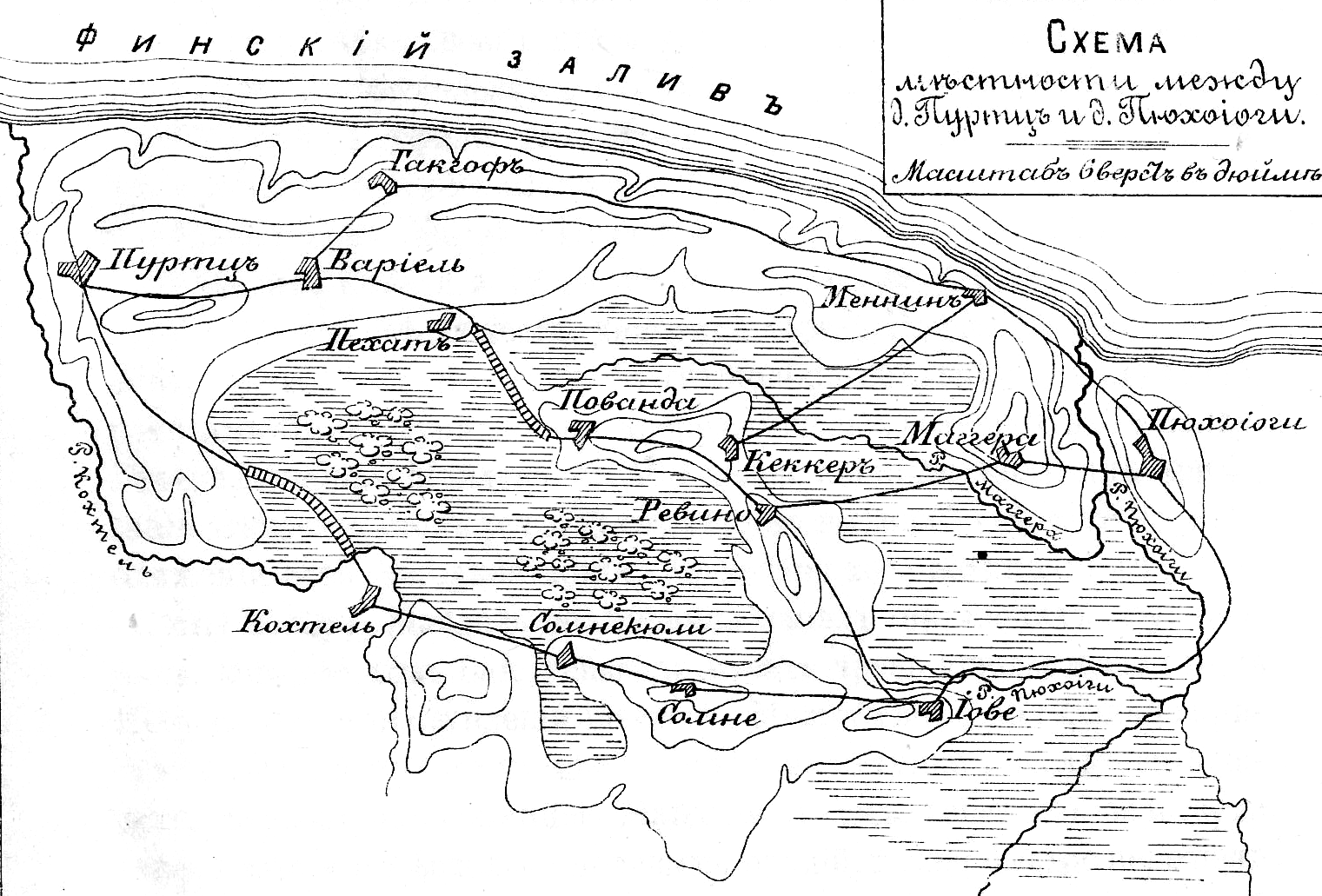 Outskirts of Narva, the place of several skirmishes between Russian and Swedish forces before the Battle of Narva, 1700